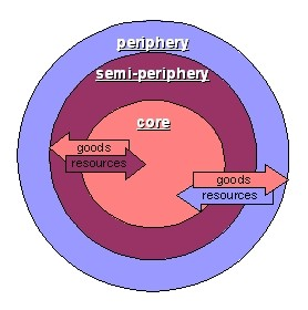 This is a diagram of the dependency theory of social stratification of the world.